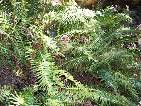 Blechnum nudum at Leura Cascades